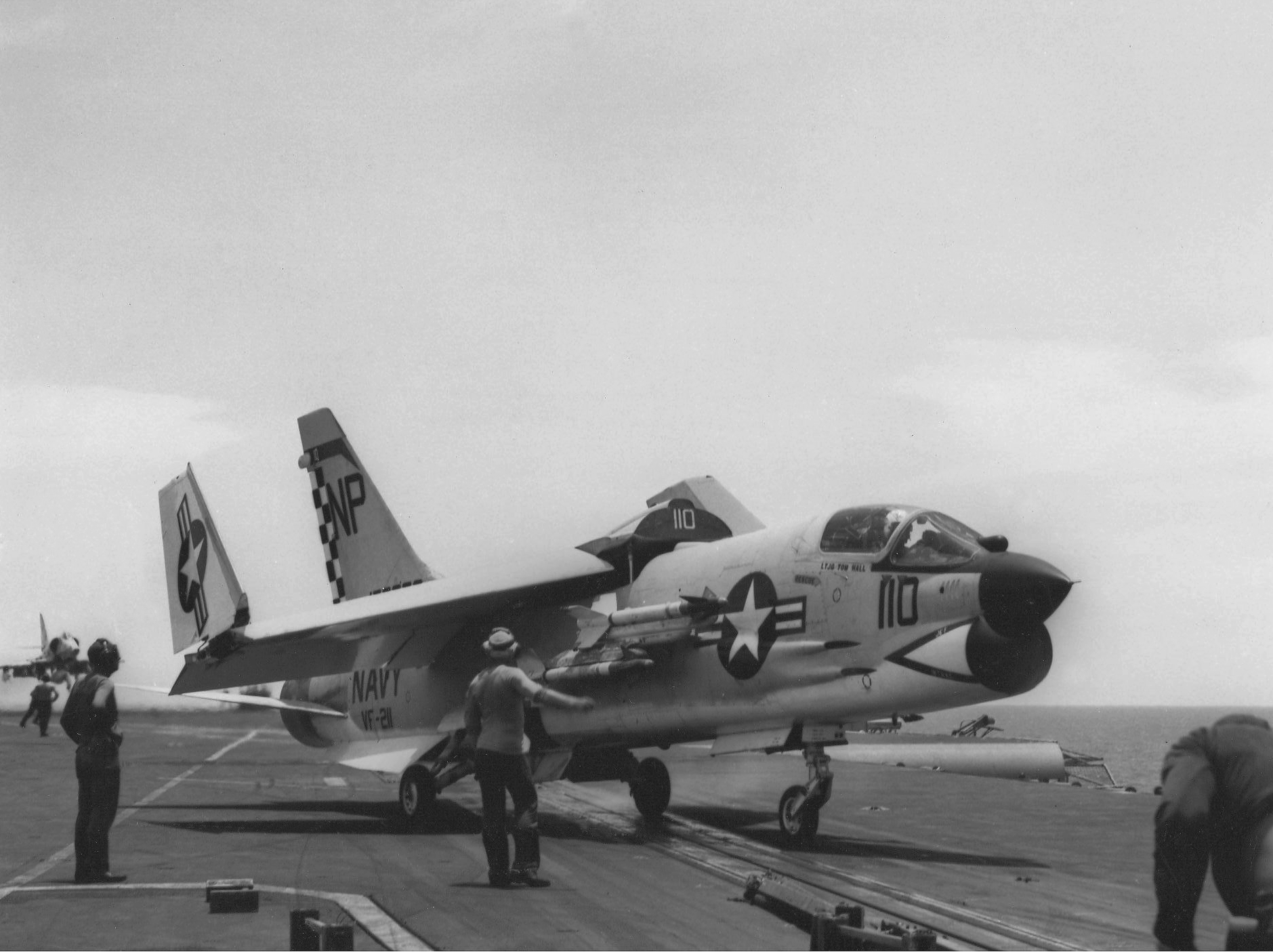 A U.S. Navy Vought F-8E Crusader (BuNo 150923) of Fighter Squadron 211 (VF-211) "Checkmates" taxis towards the catapult on board the carrier USS Bon Homme Richard (CVA-31) during flight operations while the carrier was steaming on Yankee Station off the coast of North Vietnam. Note the missile load on the airplane and the Douglas A-4E Skyhawk of Attack Squadron 212 (VA-212) "Rampant Raiders" recovering on board behind the Crusader. Both squadrons were assigned to Carrier Air Wing 21 (CVW-21) aboard the Bon Homme Richard for a deployment to Vietnam from 26 January to 25 August 1967. The F-8E 150923 was later converted to an F-8J but shot down by flak over North Vietnam on 20 June 1972 while still in service with VF-211. The pilot ejected and was rescued.